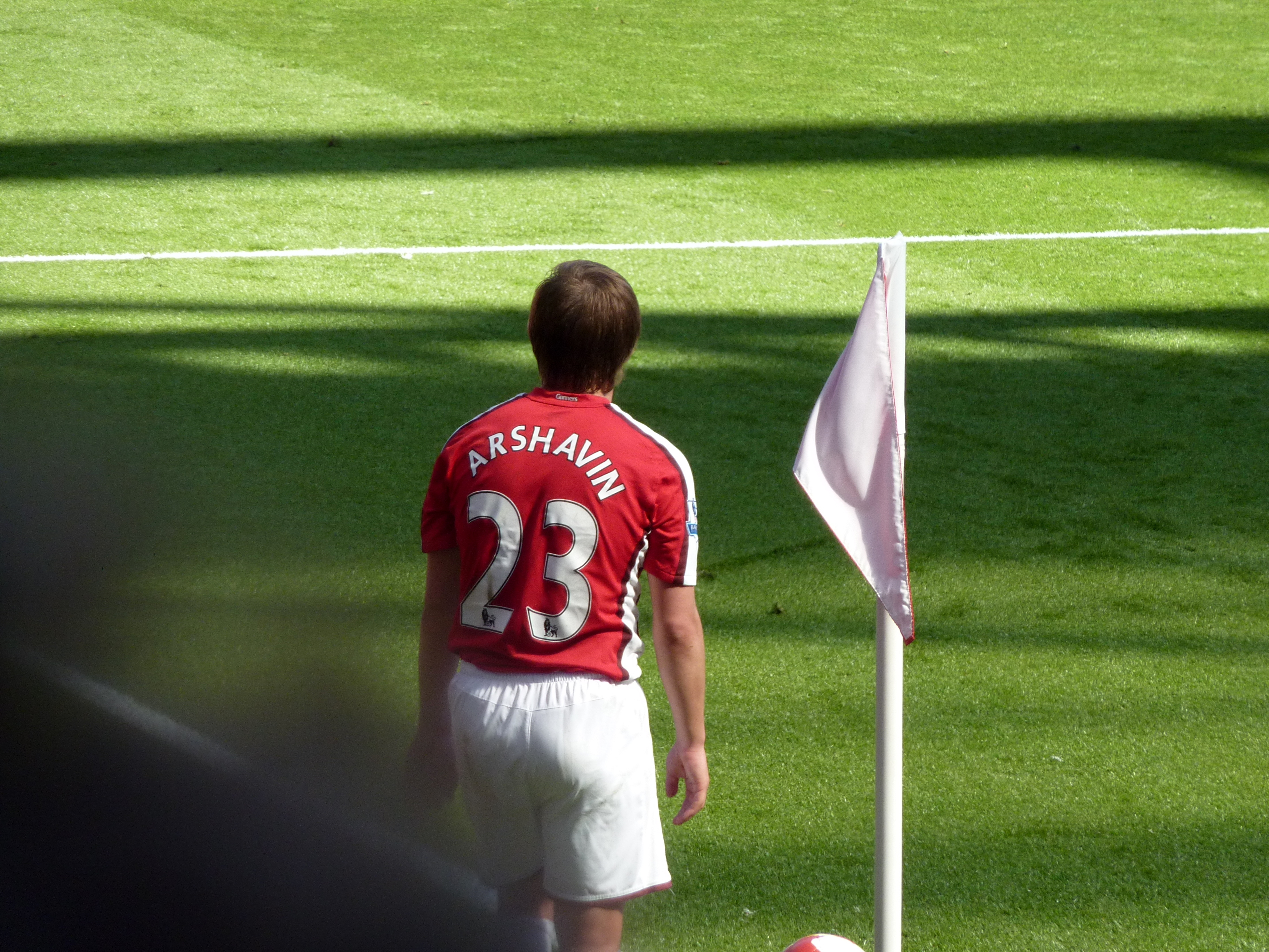 Andrei Arshavin is a Russian football forward who currently plays for Zenit St Petersburg of the Russian Premier Liga and the Russia national football team.